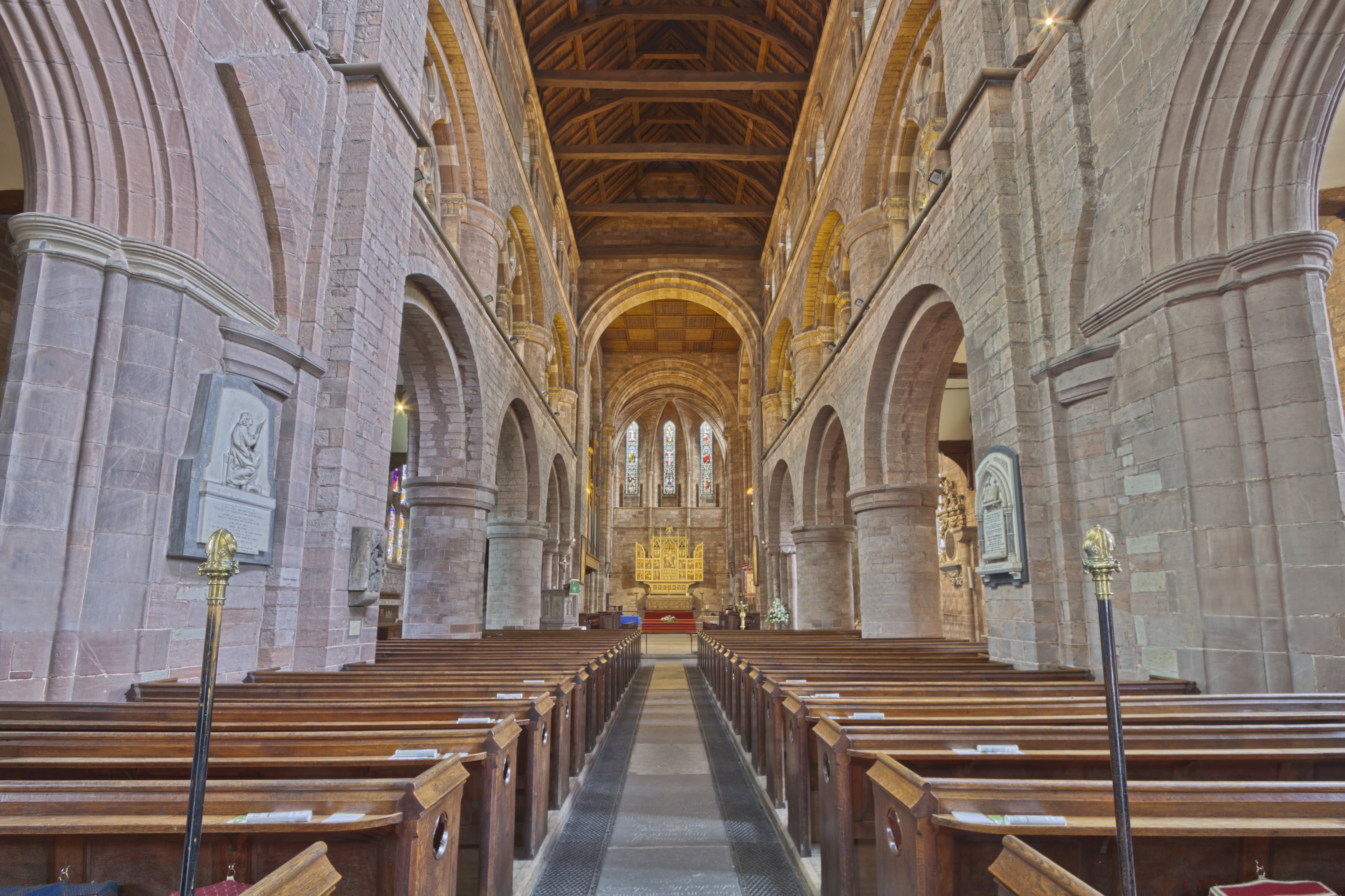 Shrewsbury Abbey (including pulpit) Wikidata has entry Q17646593 with data related to this monument.